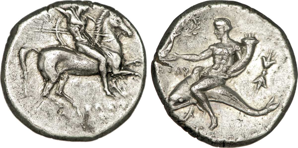 Nomos de la cité de Tarente à l'effigie d'un Taras et d'un cavalier (vers 275 av. J.-C.) Description revers : Taras nu, chevauchant un dauphin à gauche, tenant une petite Niké stéphanophoros de la main droite et une corne d’abondance de la main gauche ; derrière à droite, un foudre (fulmen) . Description avers : Cavalier nu, coiffé d’un casque attique à triple aigrette, galopant à droite, tenant une javeline transversale de la main droite, un bouclier et deux autres javelines de la main gauche